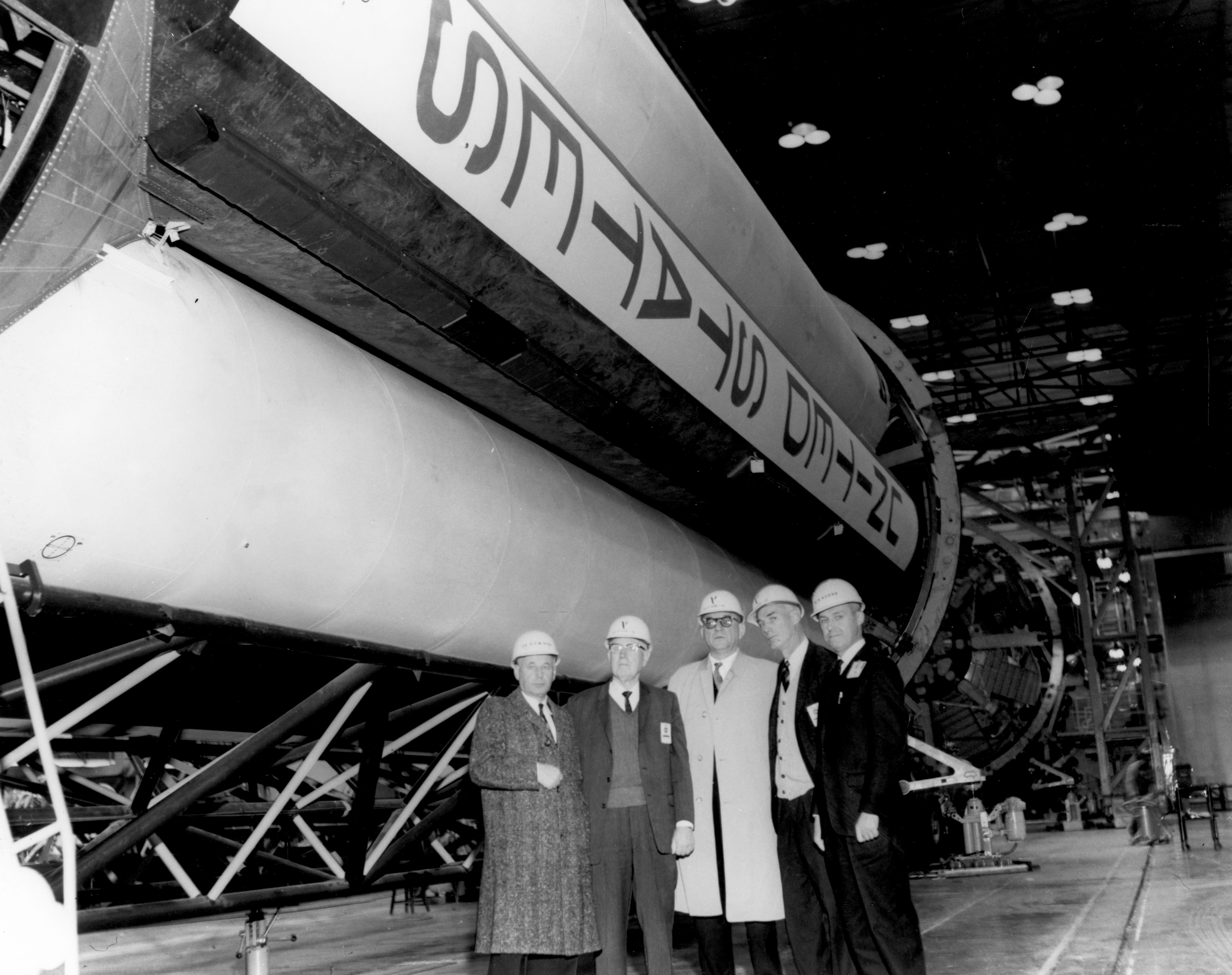 Members of the House Committee on Science and Astronautics visited the Marshall Space Flight Center (MSFC) on January 3, 1962 to gather firsthand information of the nation’s space exploration program. The congressional group was composed of members of the Subcommittee on Manned Space Flight. Shown here at MSFC’s Manufacturing Engineering Laboratory are (left to right): Dr. Eberhard Rees, MSFC; Congressman George P. Miller, Democratic representative of California; Congressman F. Edward Hebert, Democratic representative of Louisiana; Congressman Robert R. Casey, Democratic representative of Texas; and Werner Kuers, MSFC.